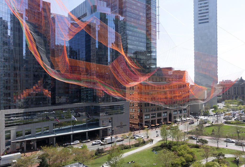 As If It Were Already Here during the day